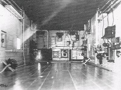 Type 94 Armored Train, interior of reconnaissance waggon